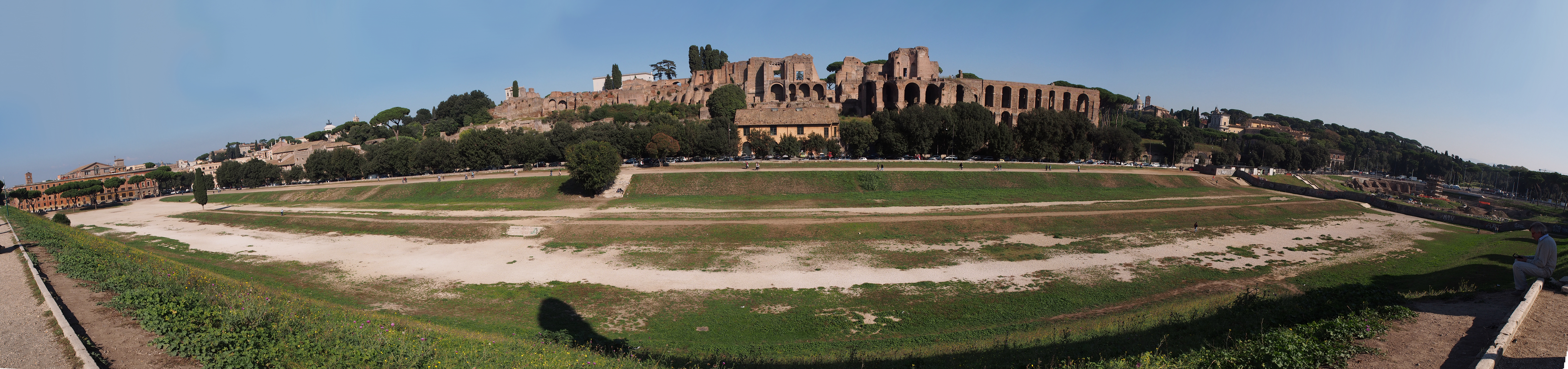 Circus Maximus in Rome. Italy